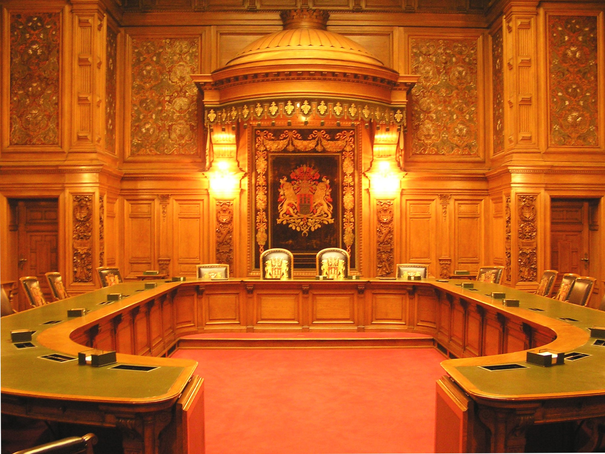 Room of Hamburg Senat (state government).